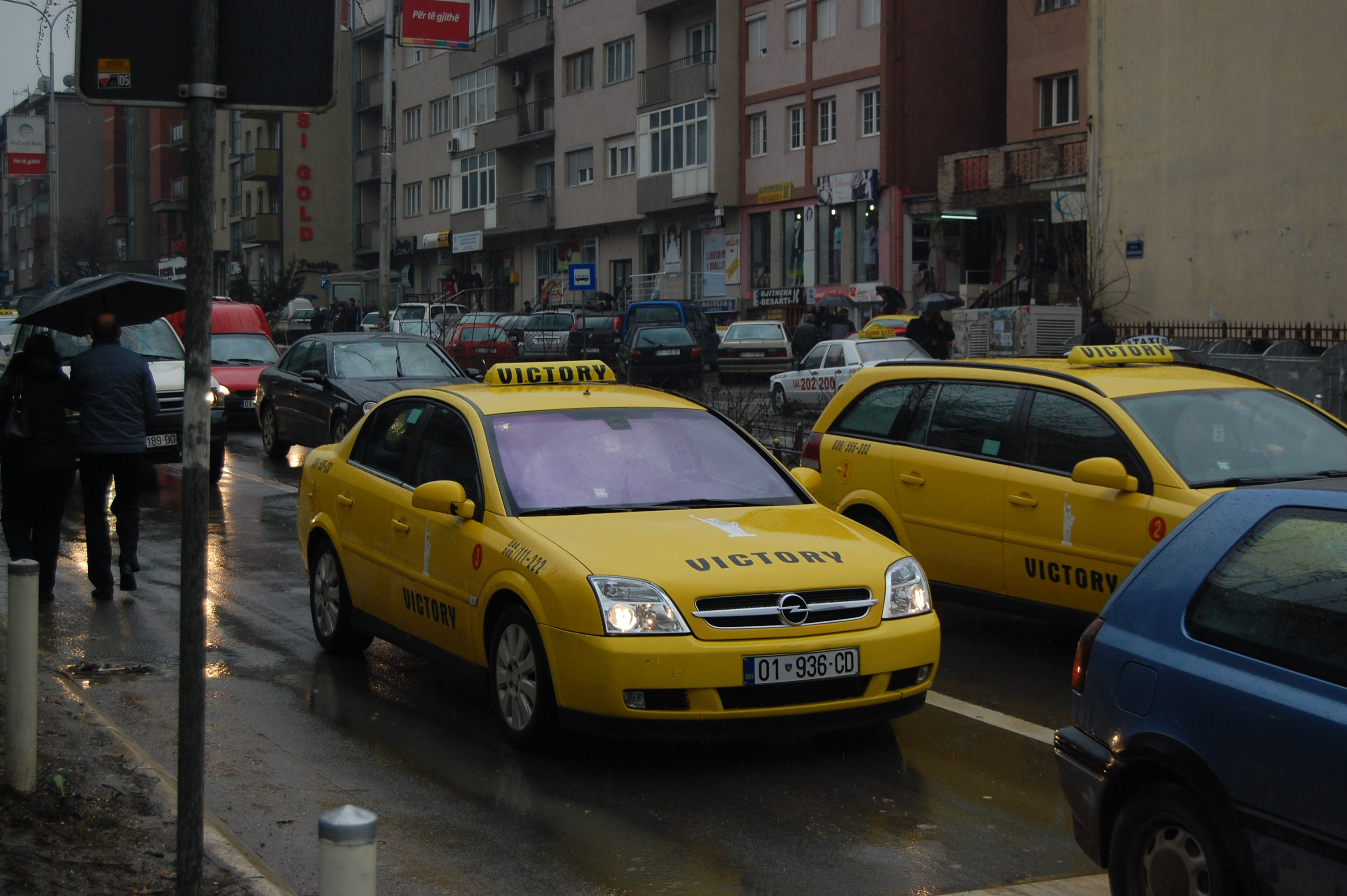 Taxi '01 936-CD' in Pristina, Kosovo, operated by 'Victory' taxi company. Logo on door is silhouette of the Statue of Liberty.